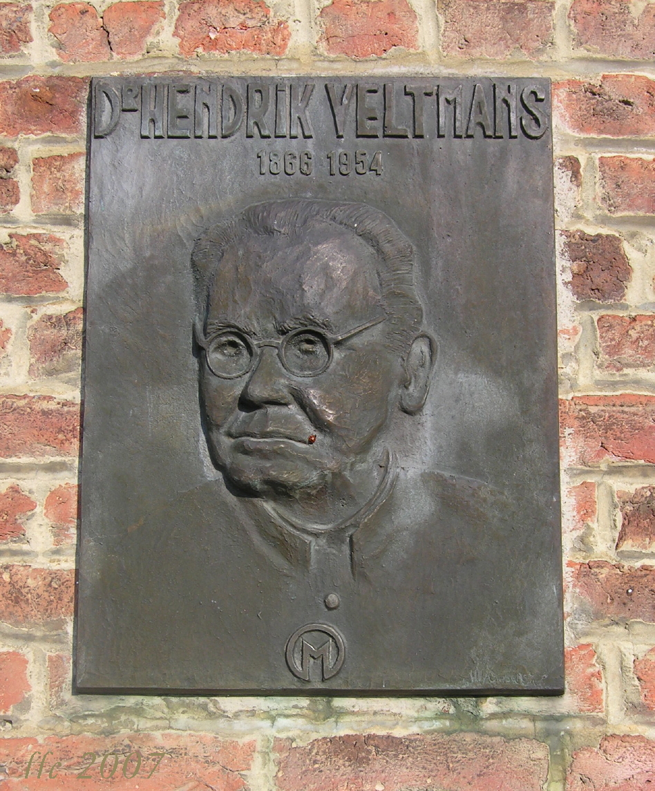 Sint-Martens-Voeren (Belgium): Veltmanshuis: plaque for Hendrik Veltmans